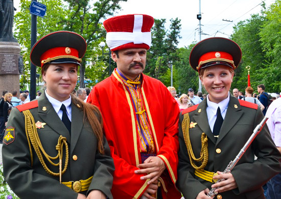 Военные оркестры Черноморского флота и штаба ЮВО приняли участие в международном фестивале военных оркестров «Military Tattoo» в Севастополе